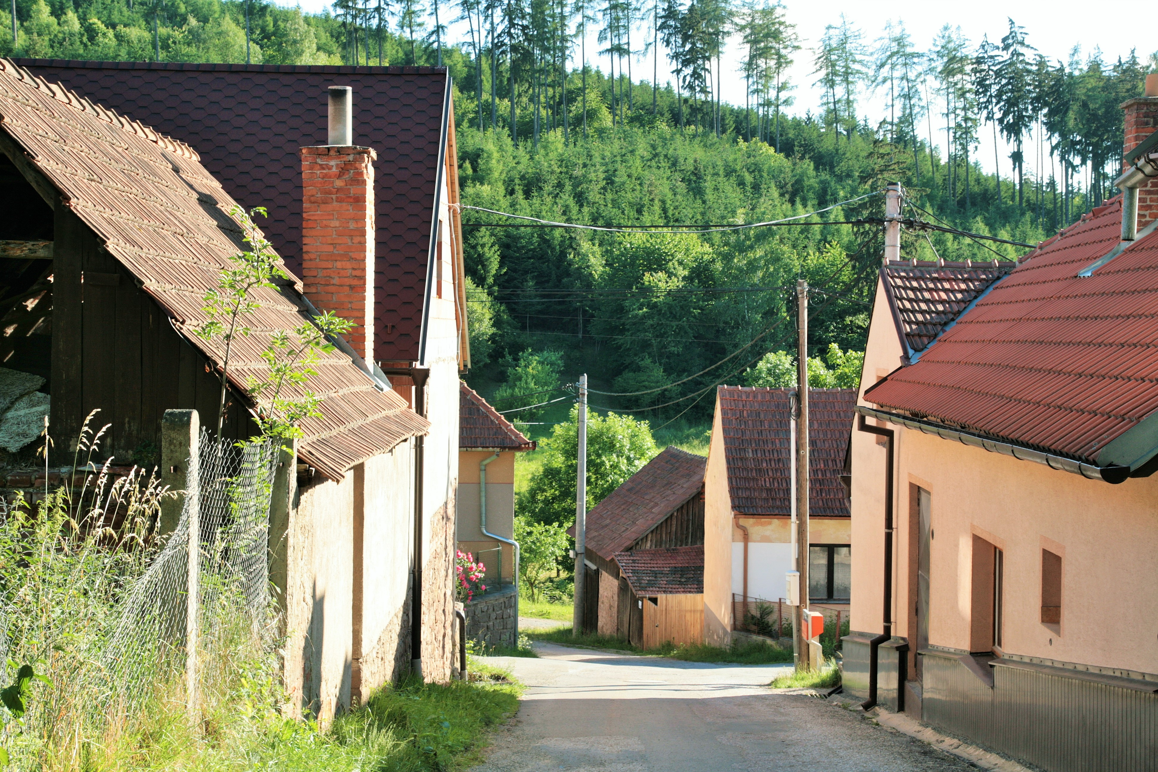 Hajánky, part of Tišnov town, Brno-Country District, Czech Republic.